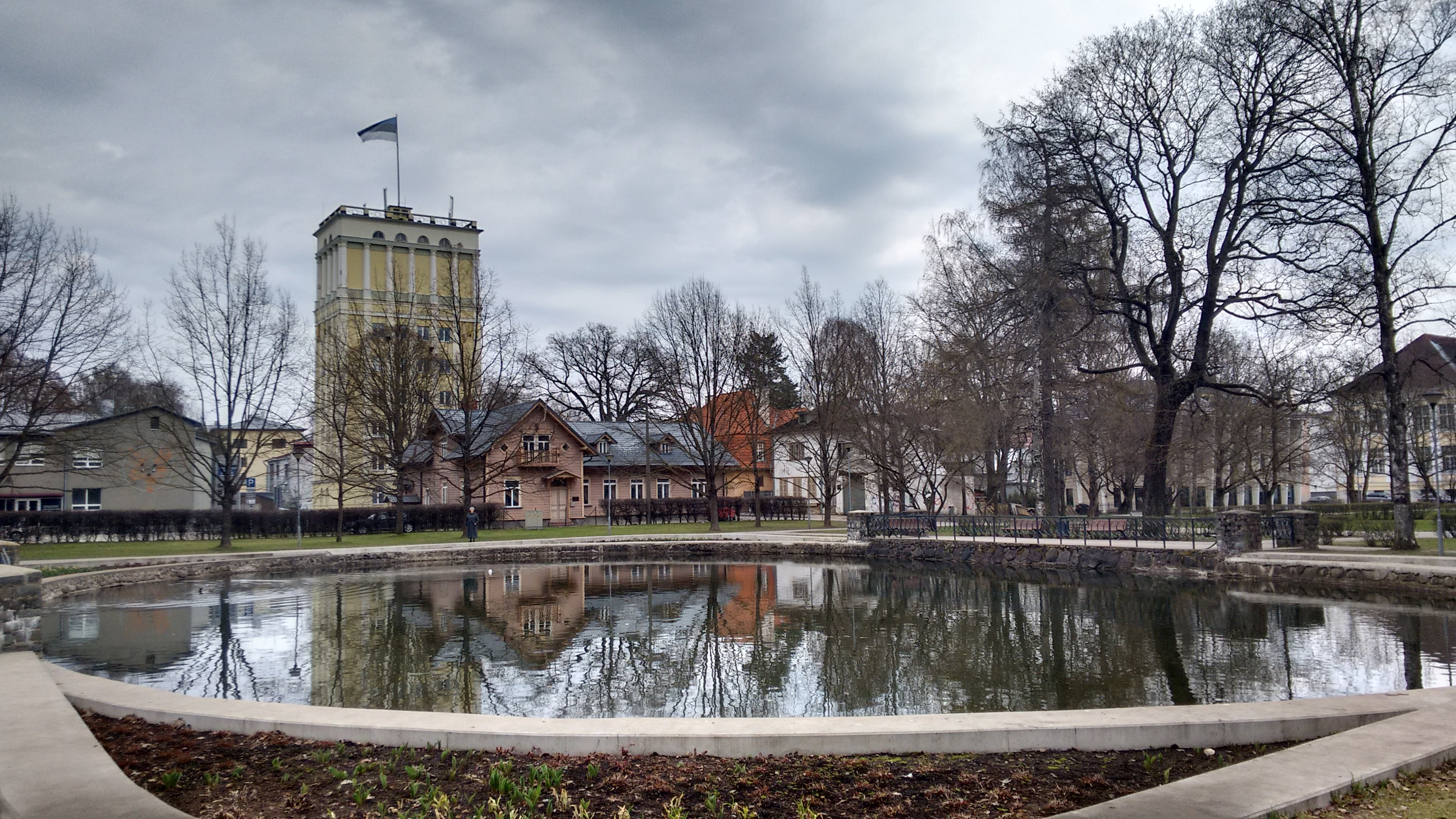 Traugott-Hahn-Haus in Tartu, as seen from Tiigi Park